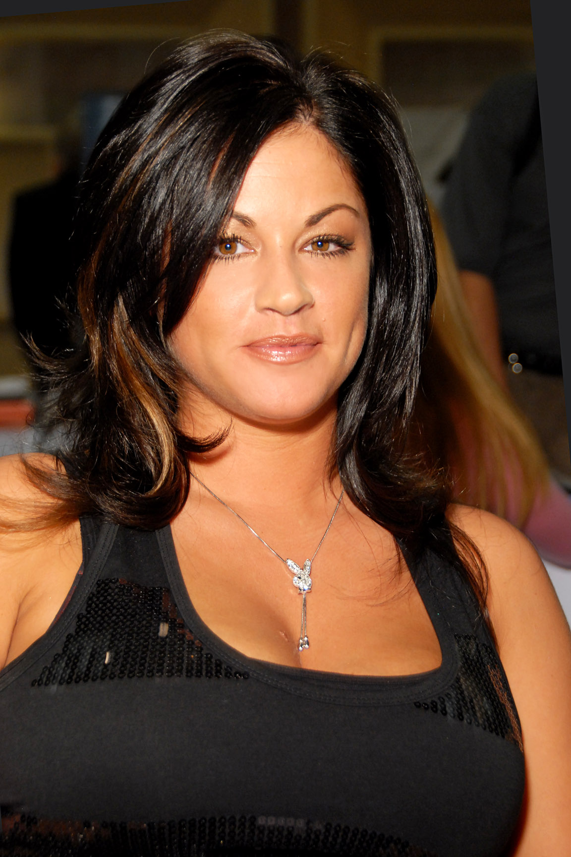 Kimberly Spicer attending Glamourcon at the Hilton Hotel, Long Beach, CA on November 5, 2011 - Photo by Glenn Francis at